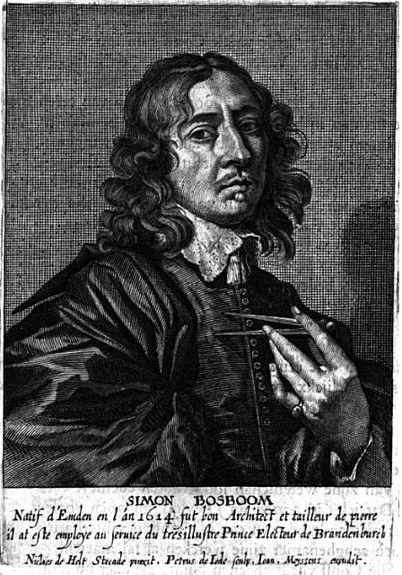 Portrait of Simon Bosboom in Cornelis de Bie's Gulden Cabinet.